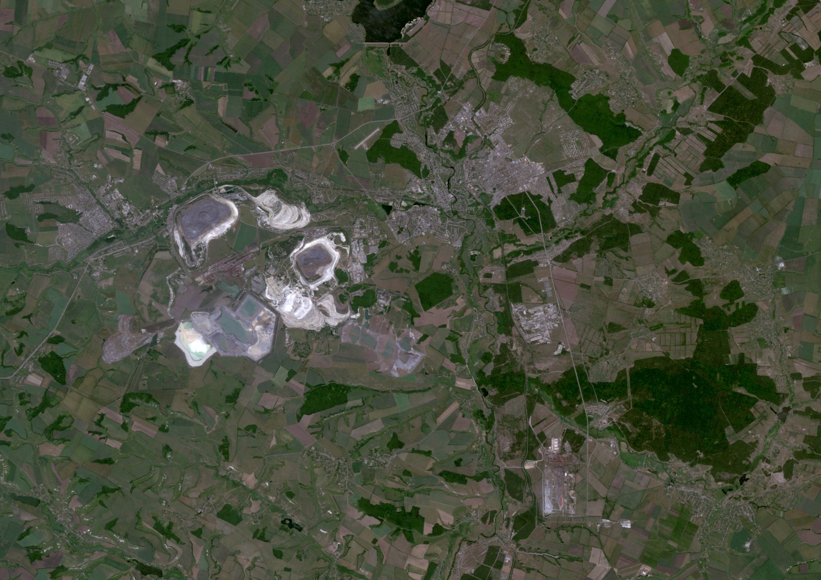 Stary Oskol - Gubkin urban agglomeration, Russia, city and vicinities, satellite image ,LandSat-5, 2010-06-24, near natural colors, resolution 30m